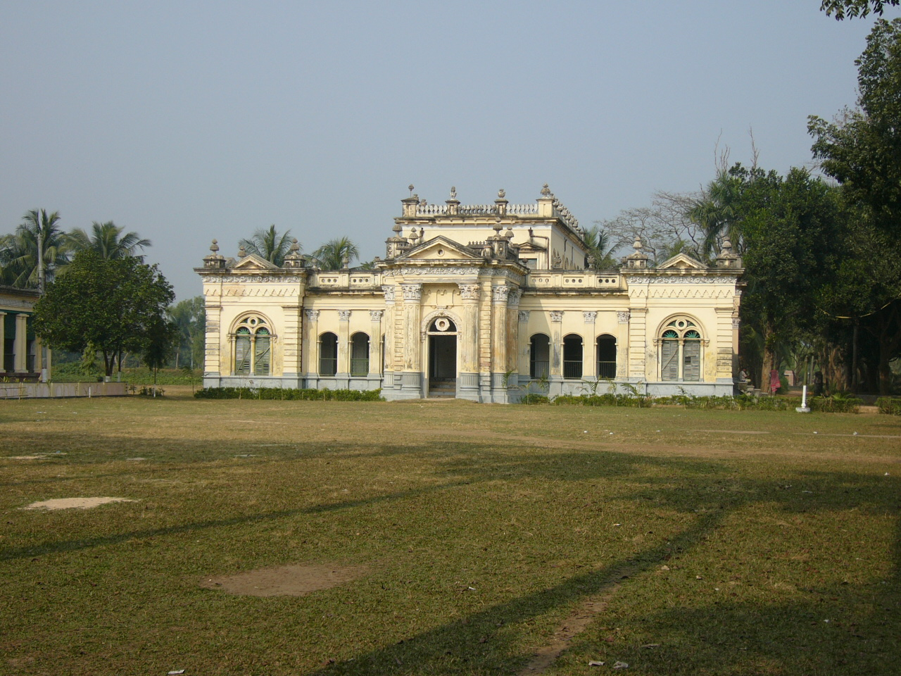 Natore, A District of Bangladesh Authour Shahnoor Habib Munmun